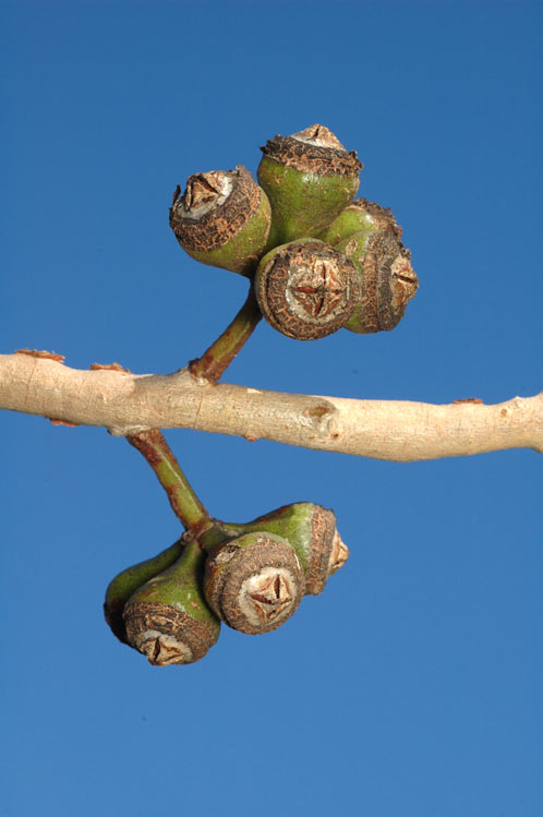 Fruit of Eucalyptus canaliculata in the Australian National Botanic Garden